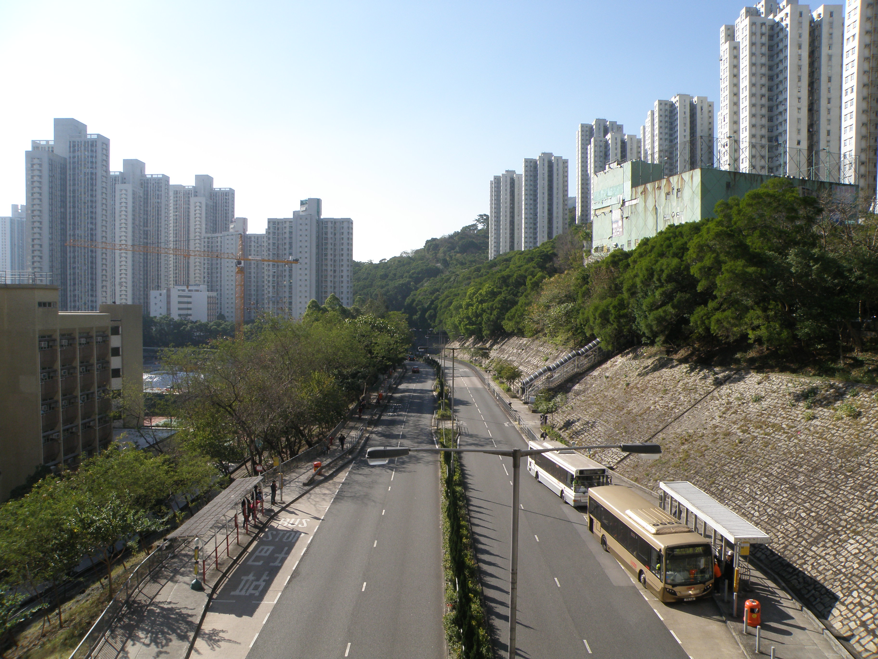 Chuk Yuen Road in Wong Tai Sin District, Hong Kong.